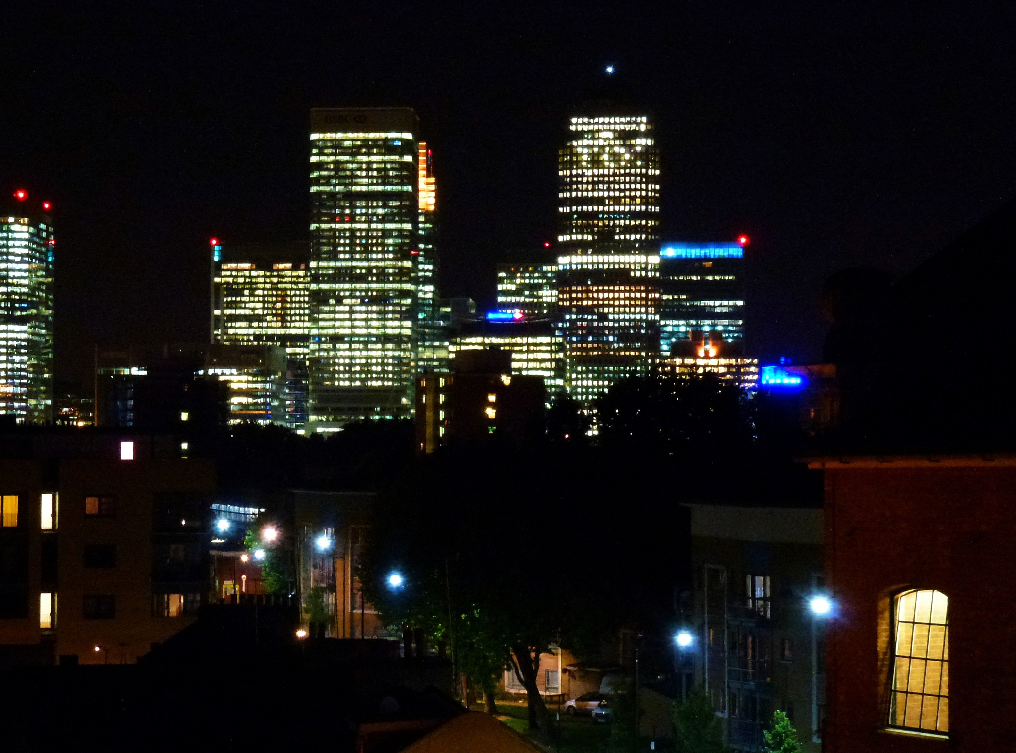 View from the roof top of Limehouse Cut (Poplar, London)